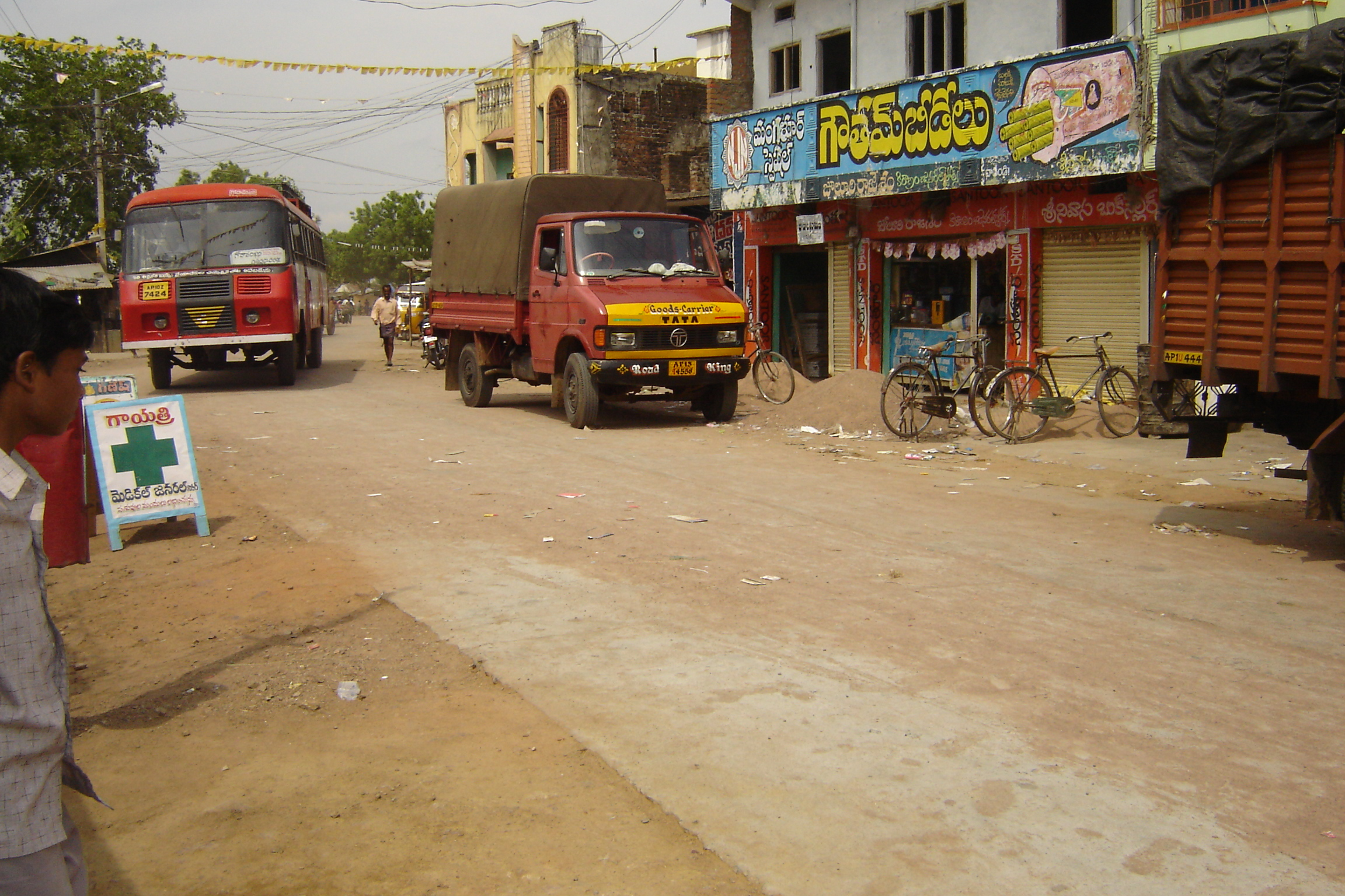 Kalva Sriranmpur Karimnagar